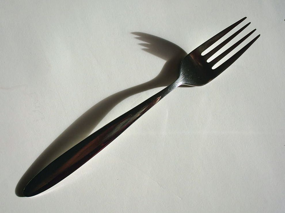 Fork